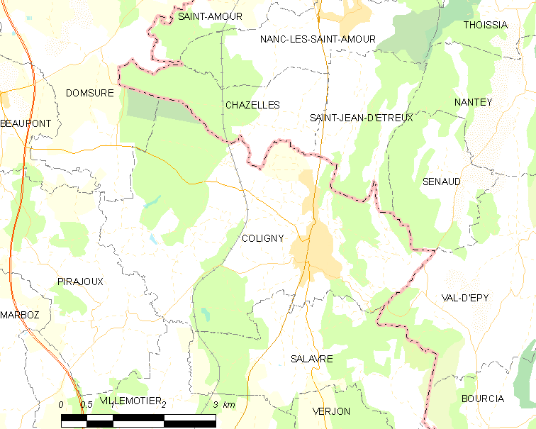 Map of French commune: Coligny Map commune FR insee code 01108.png